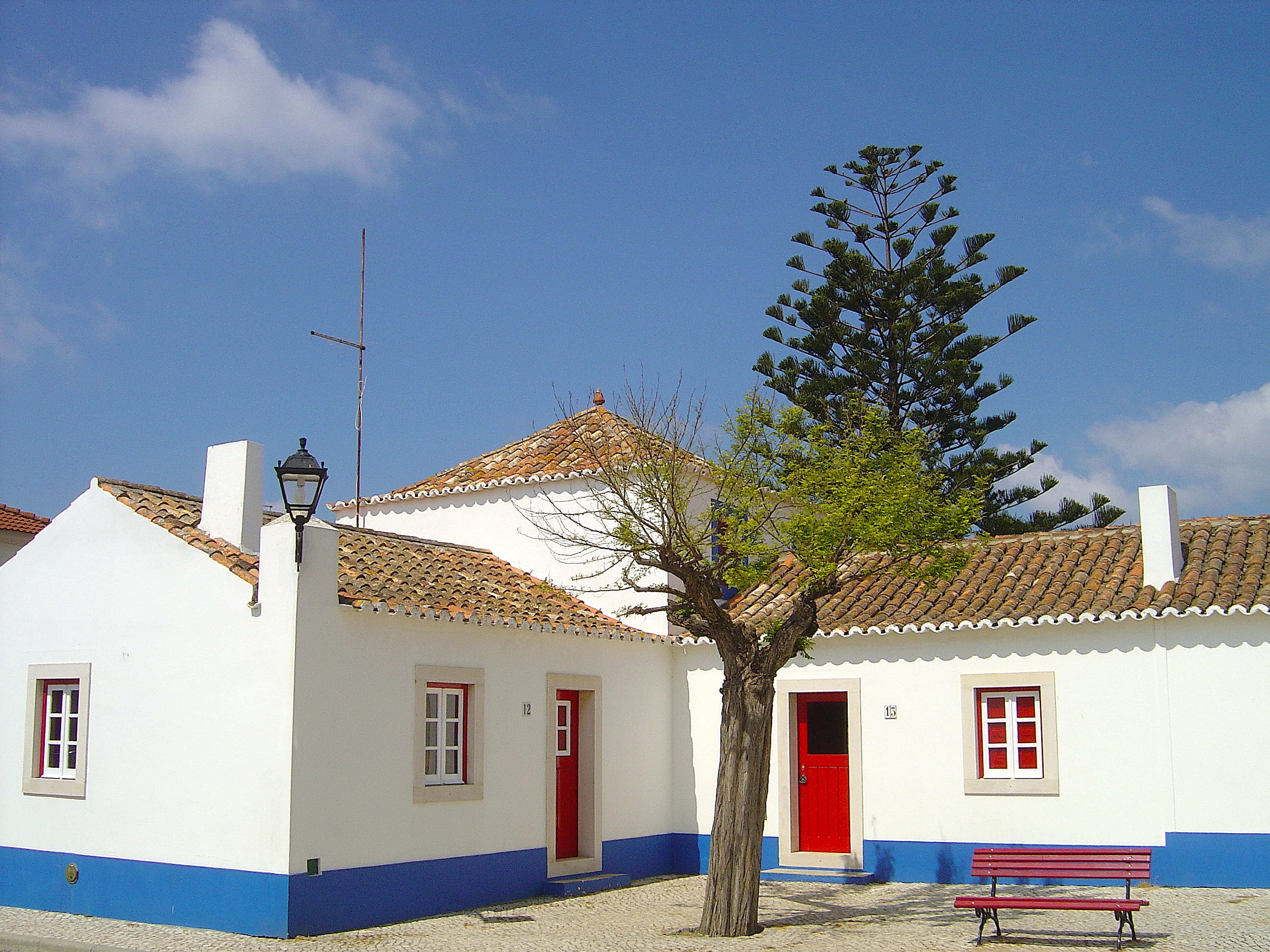 See where this picture was taken. [?]